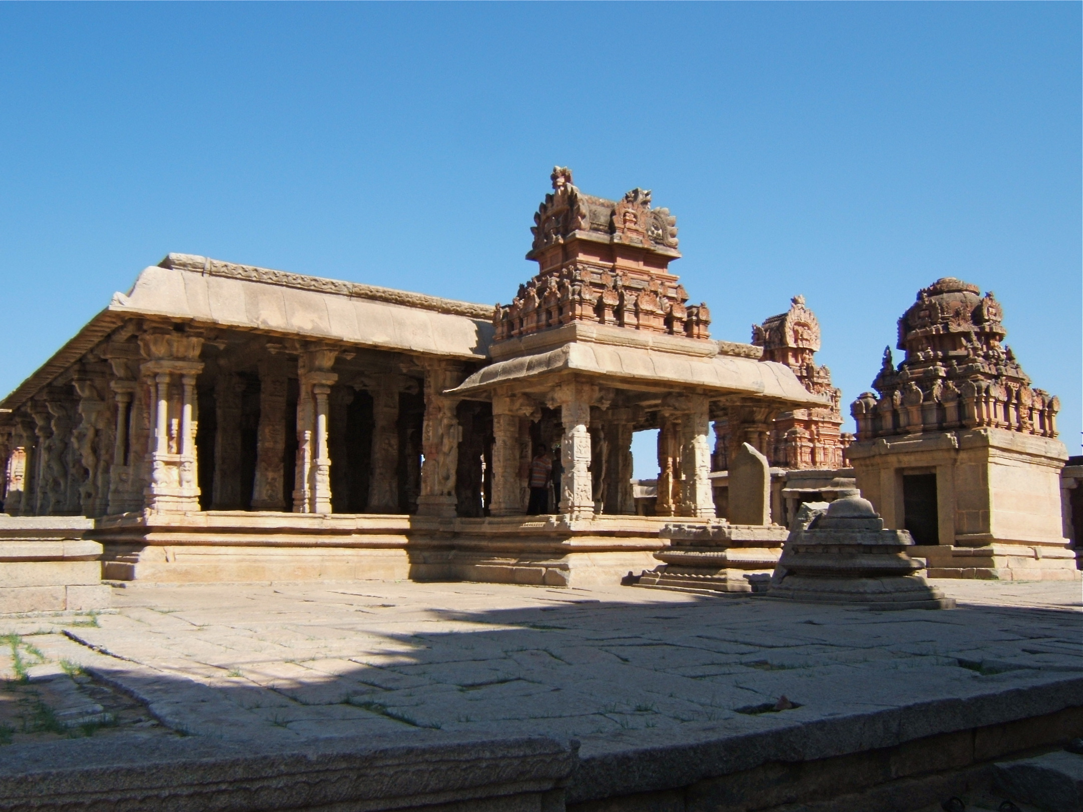 Bala Krishna temple at Hampi, Karnataka